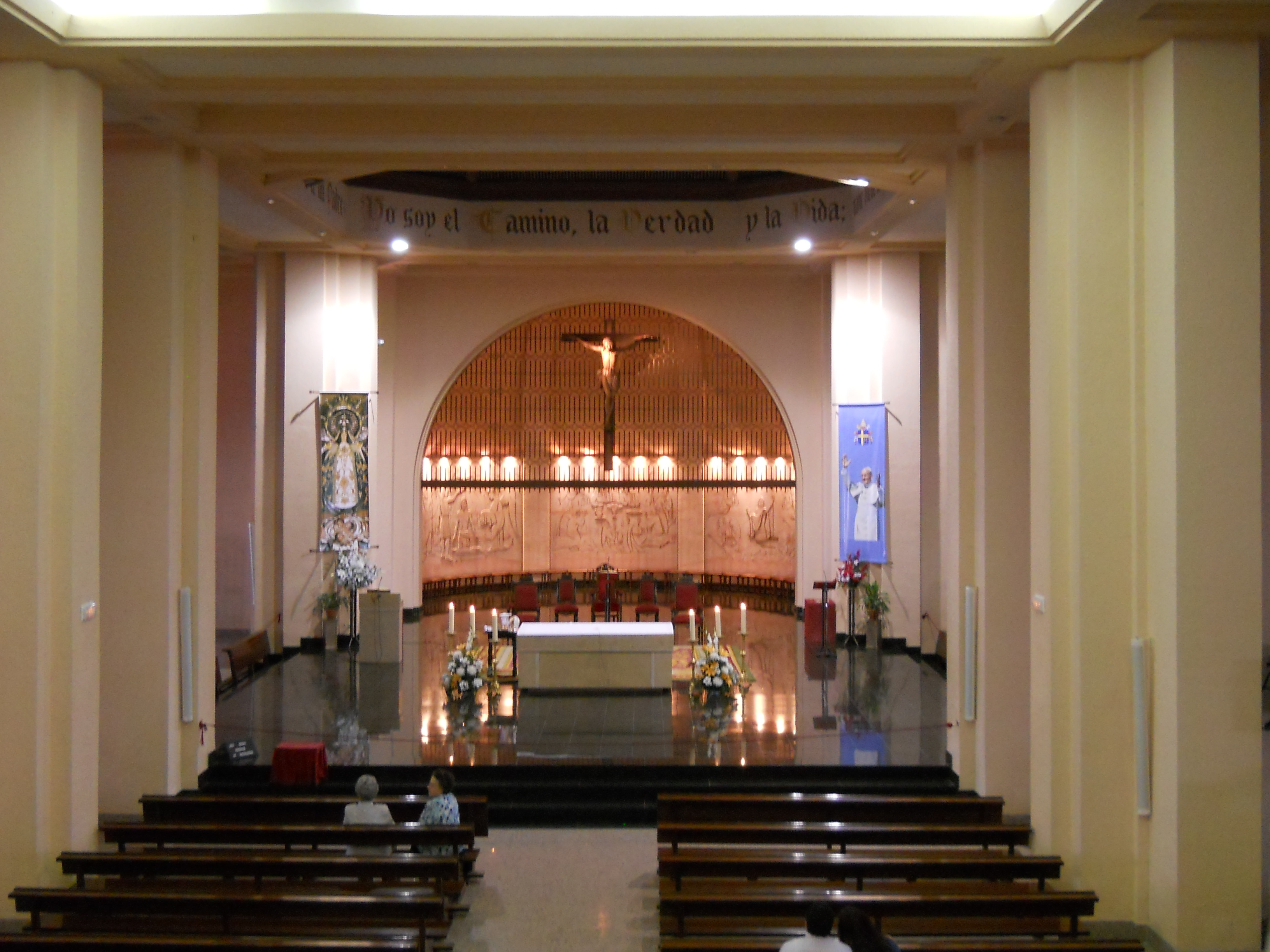 Sanctuary, Cerro de los Ángeles, Getafe, Madrid, Spain